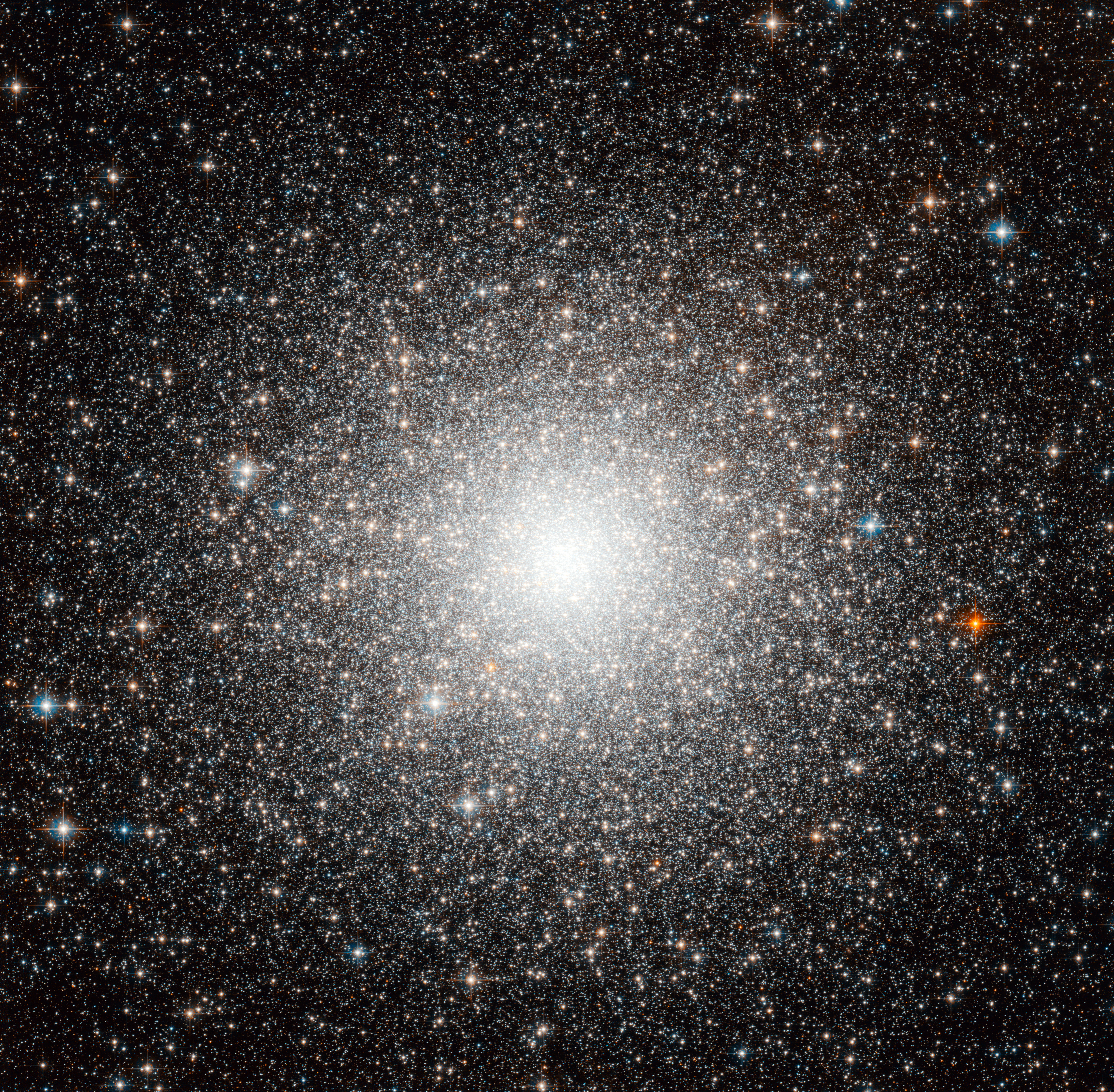 The object shown in this beautiful Hubble image, dubbed Messier 54, could be just another globular cluster, but this dense and faint group of stars was in fact the first globular cluster found that is outside our galaxy. Discovered by the famous astronomer Charles Messier in 1778, Messier 54 belongs to a satellite of the Milky Way called the Sagittarius Dwarf Elliptical Galaxy. Messier had no idea of the significance of his discovery at the time, and it wasn’t until over two centuries later, in 1994, that astronomers found Messier 54 to be part of the miniature galaxy and not our own. Current estimates indicate that the Sagittarius dwarf, and hence the cluster, is situated almost 90 000 light-years away — more than three times as far from the centre of our galaxy than the Solar System. Ironically, even though this globular cluster is now understood to lie outside the Milky Way, it will actually become part of it in the future. The strong gravitational pull of our galaxy is slowly engulfing the Sagittarius dwarf, which will eventually merge with the Milky Way creating one much larger galaxy. This picture is a composite created by combining images taken with the Wide Field Channel of Hubble’s Advanced Camera for Surveys. Light that passed through a yellow-orange (F606W) was coloured blue and light passing through a near-infrared filter (F814W) was coloured red. The total exposure times were 3460 s and 3560 s, respectively and the field of view is approximately 3.4 by 3.4 arcminutes.